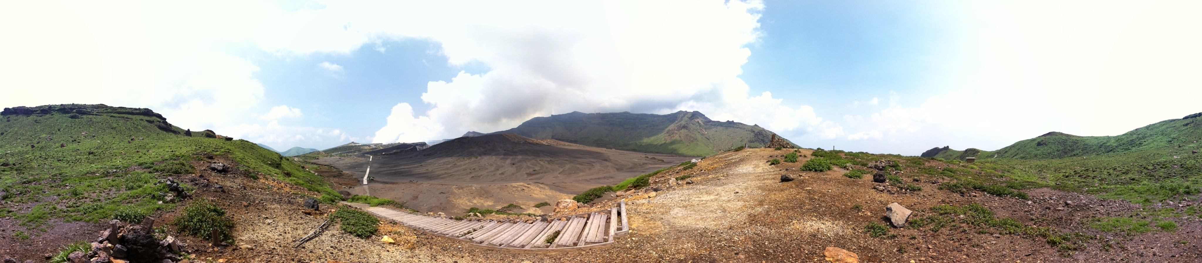 360˚ panoramic landscape of Sunasenrigahama of Mount Aso, near the Naka-dake Peak. Created with iPhone 4 and Microsoft PhotoSynth app